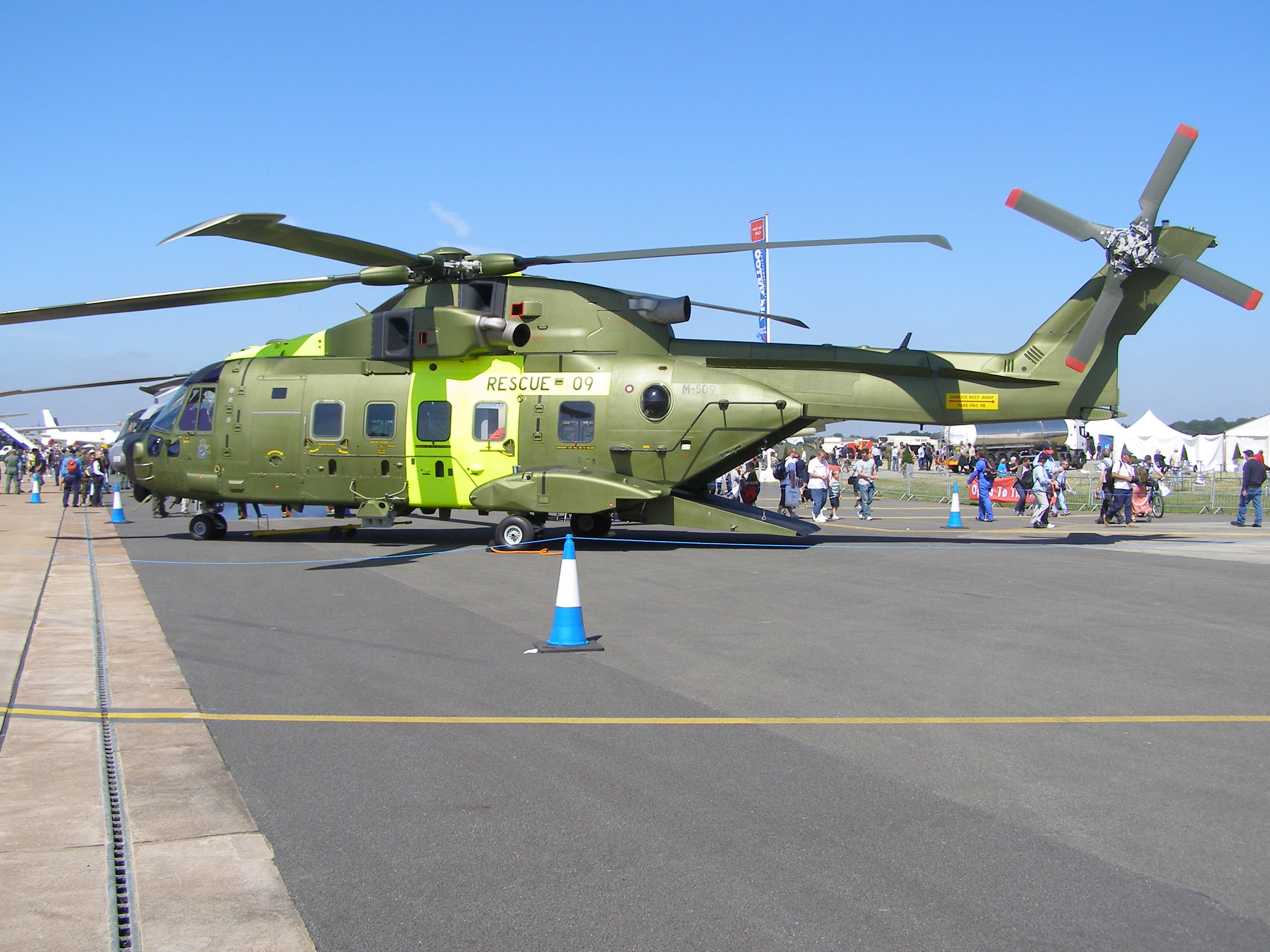 Royal Danish Air Force AgustaWestland AW-101 at RIAT RAF Fairford, England in July 2006